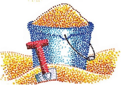 Sand Bucket with Pointilism Technique, drawn with Connector Pen